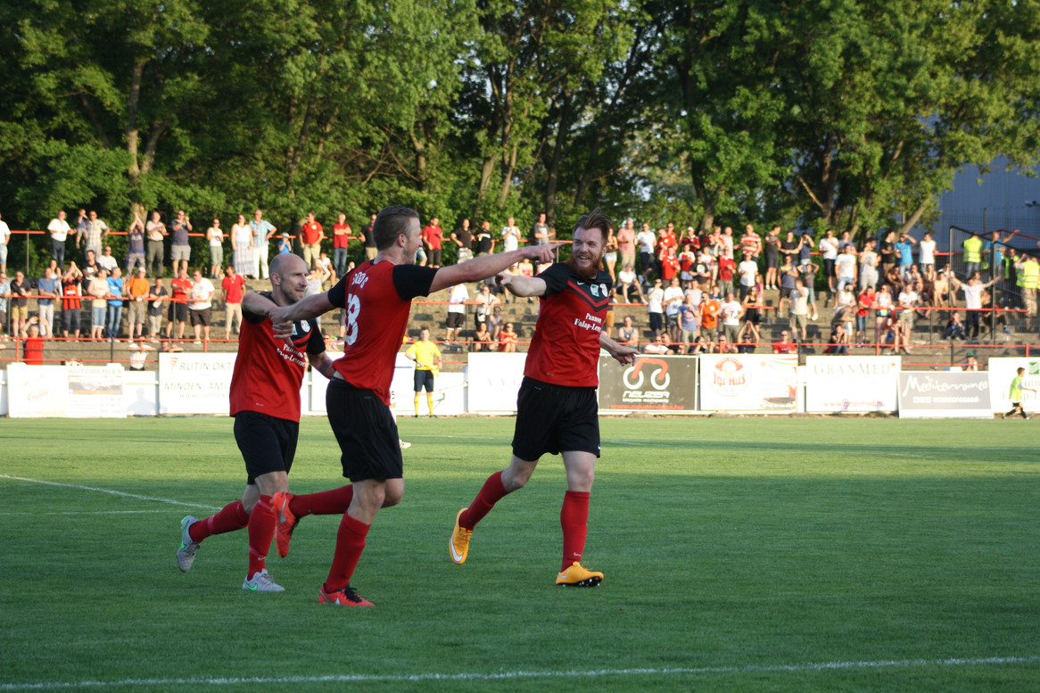 The team members greeted the score of Vigh